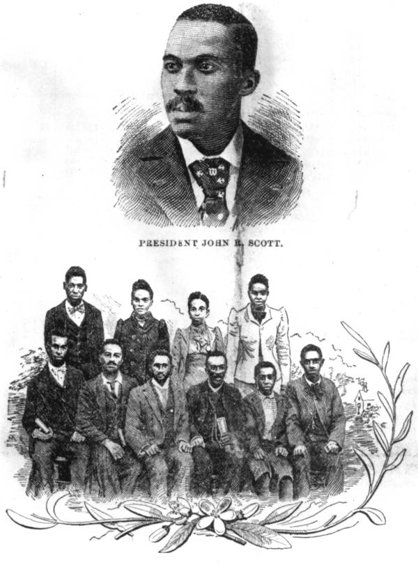 Drawing of John R. Scott and students. John R. Scott served in the Florida legislature in 1889 and was a pastor in the A.M.E. church.